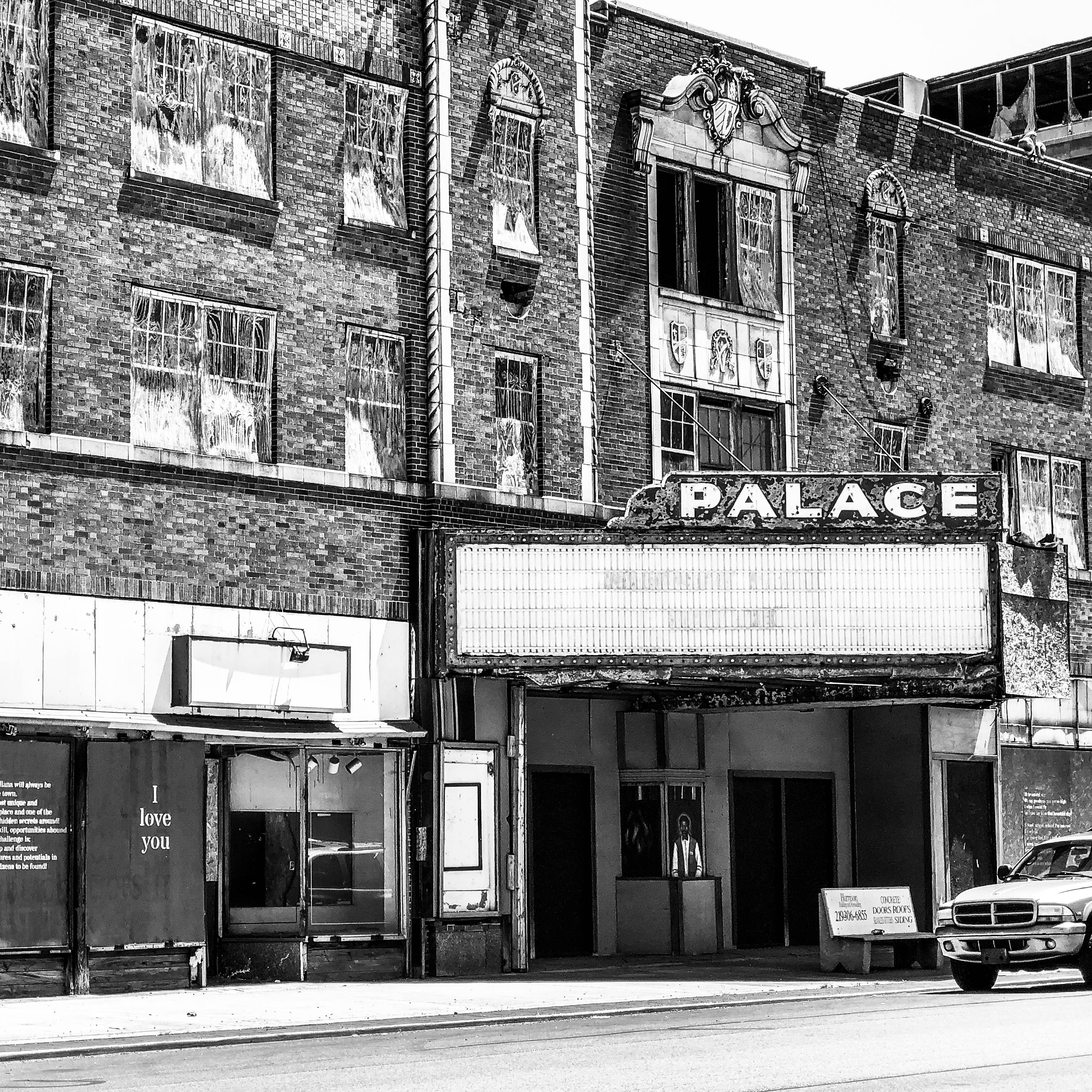 Palace Theater, downtown Gary, Indiana